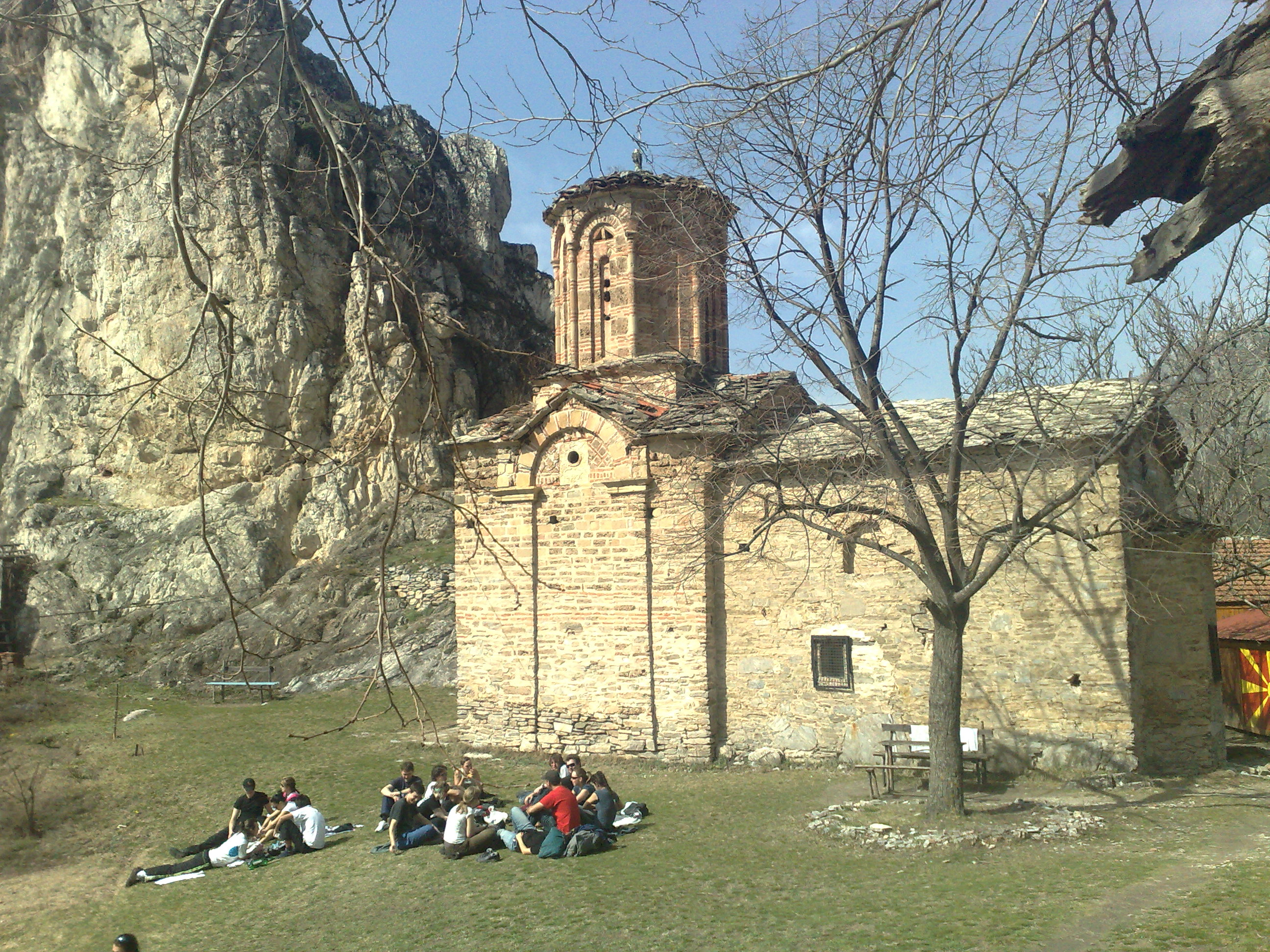 Close view of the church of Saint Nicolas, Shishevo, Macedonia